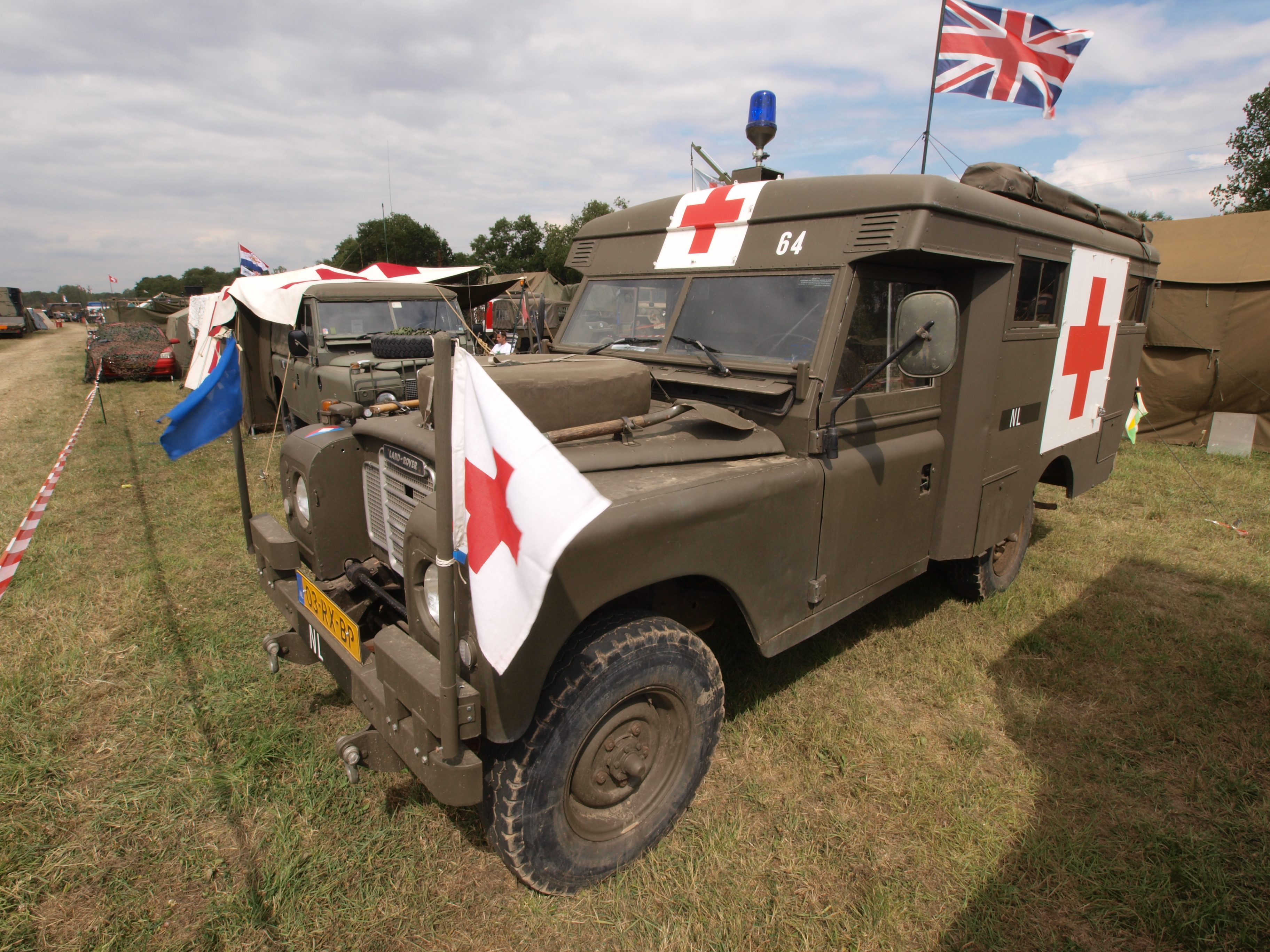 Land Rover 109 S111 Ambulance.